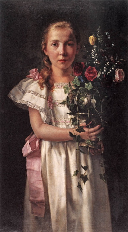 Girl with flowers